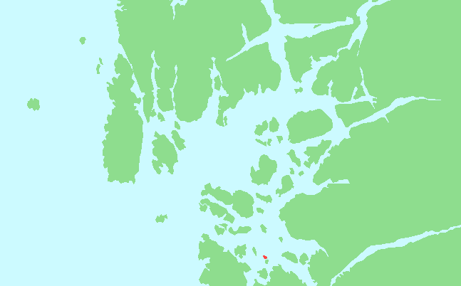 Locator map of Hellesøy, Rogaland, Norway